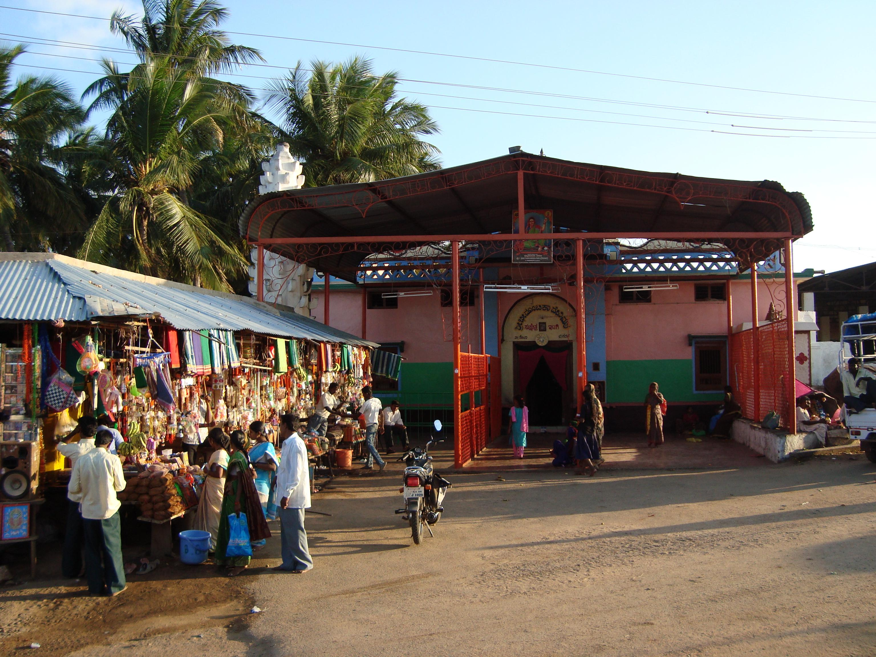 Itagi bhimambika temple. Hubli, Karnataka(North), India